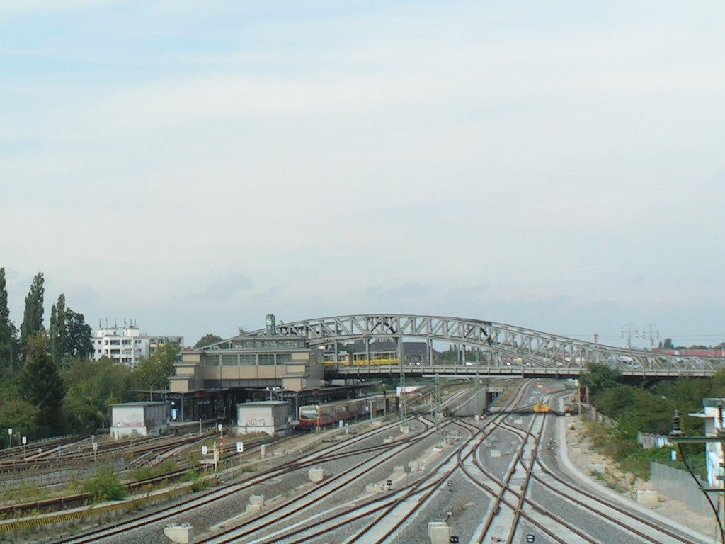 Bösebrücke and S-Bahn railway station Bornhomer Straße from south, September 2004. The long distance rail tracks were still under construction.